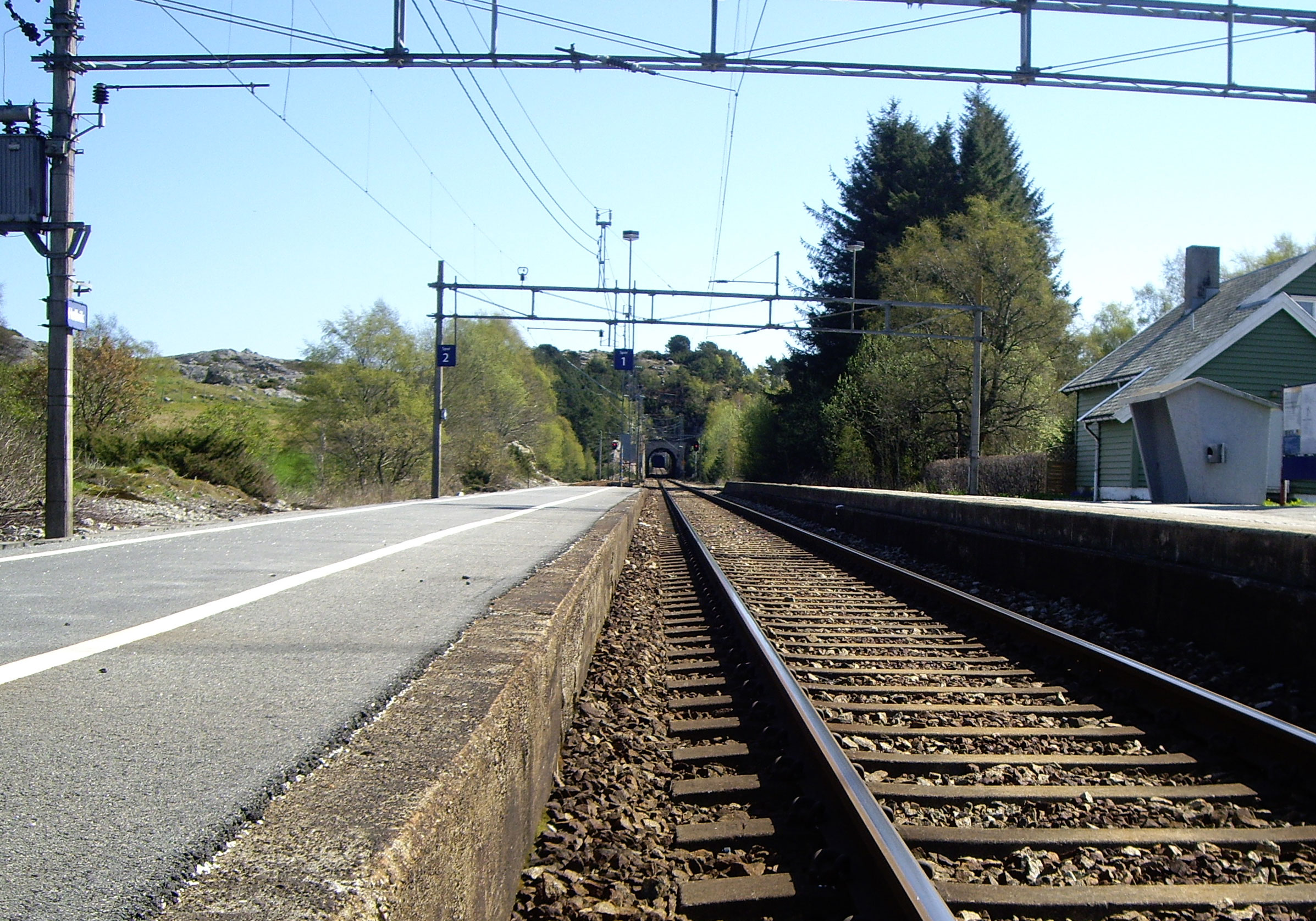 Looking towards Egersund station from Hellvik station on Jærbanen/Sørlandsbanen